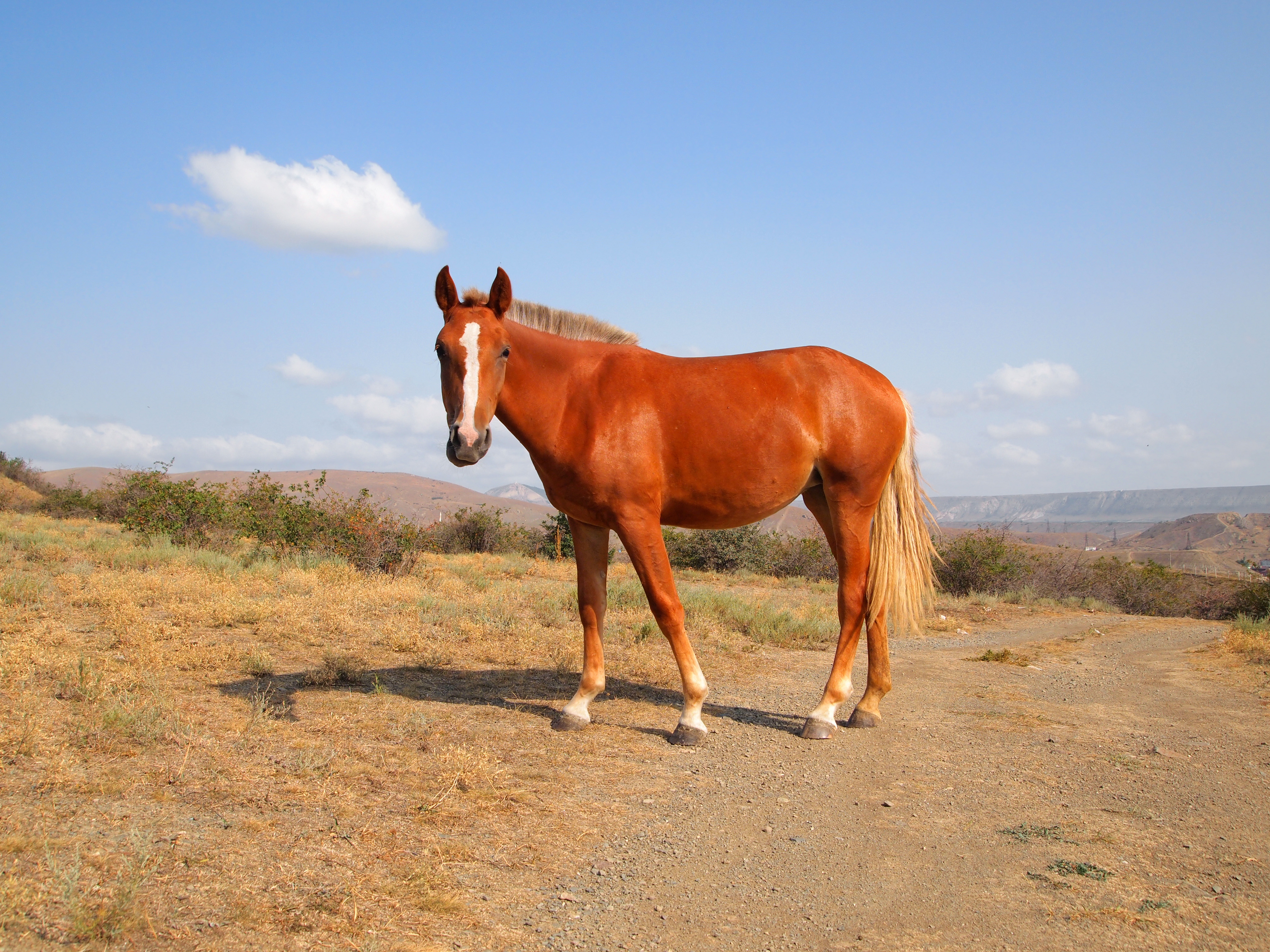 Horse near the hills in Koktebel.